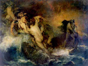 La barca de Aqueronte, an 1887 painting Filipino painter and hero Félix Resurrección Hidalgo.